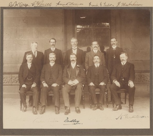 First Fisher Ministry Left to right, standing: Gregor McGregor, Vice-President of the Executive Council George Pearce, Minister for Defence Josiah Thomas, Postmaster-General Frank Tudor, Minister for Trade and Customs James Hutchison, minister without portfolio Seated: Lee Batchelor, Minister for External Affairs Andrew Fisher, Prime Minister and Treasurer The Earl of Dudley, Governor-General Billy Hughes, Attorney-General Hugh Mahon, Minister for Home Affairs